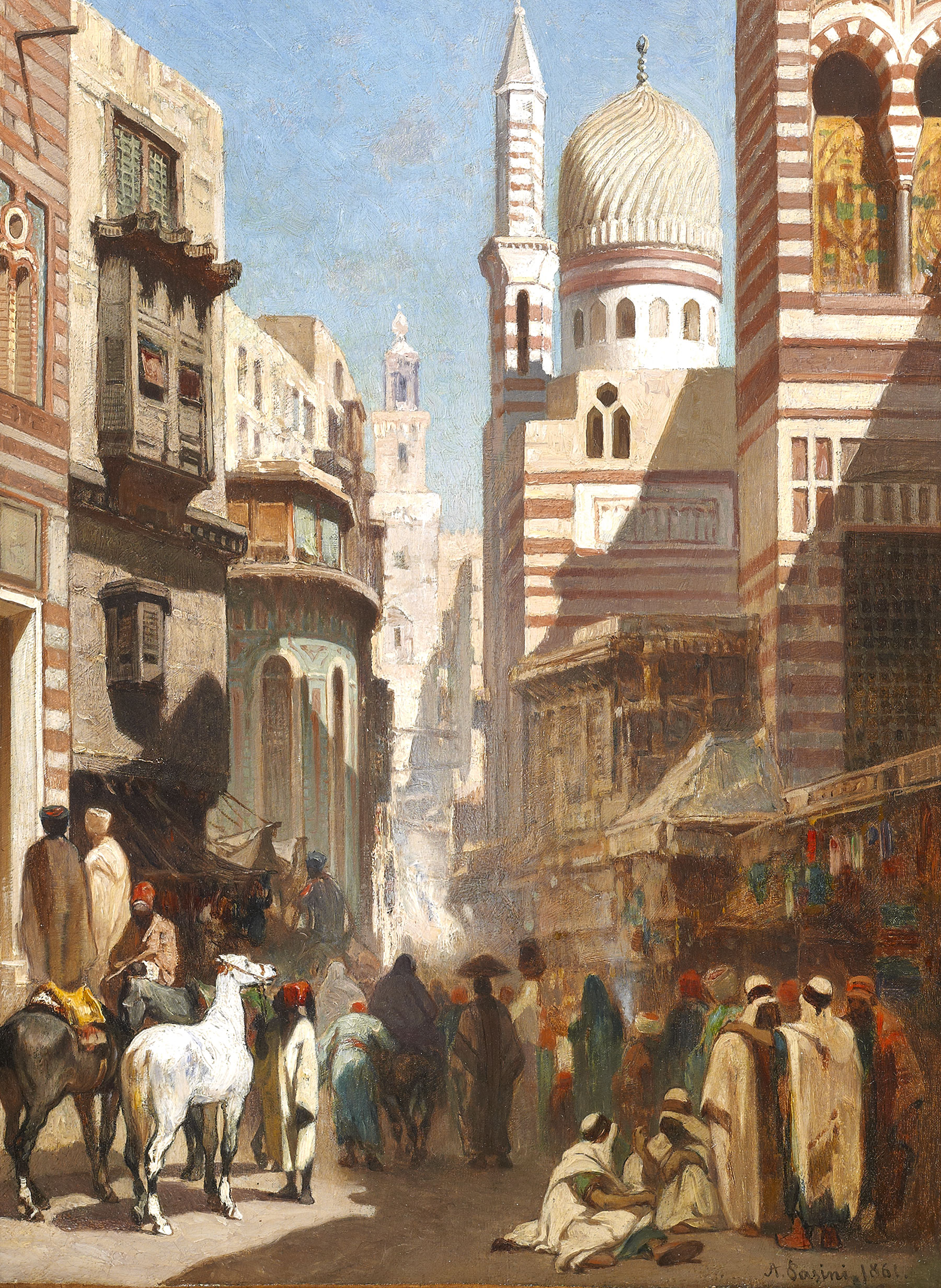 Al-Khudayri street, Cairo by Alberto Pasini